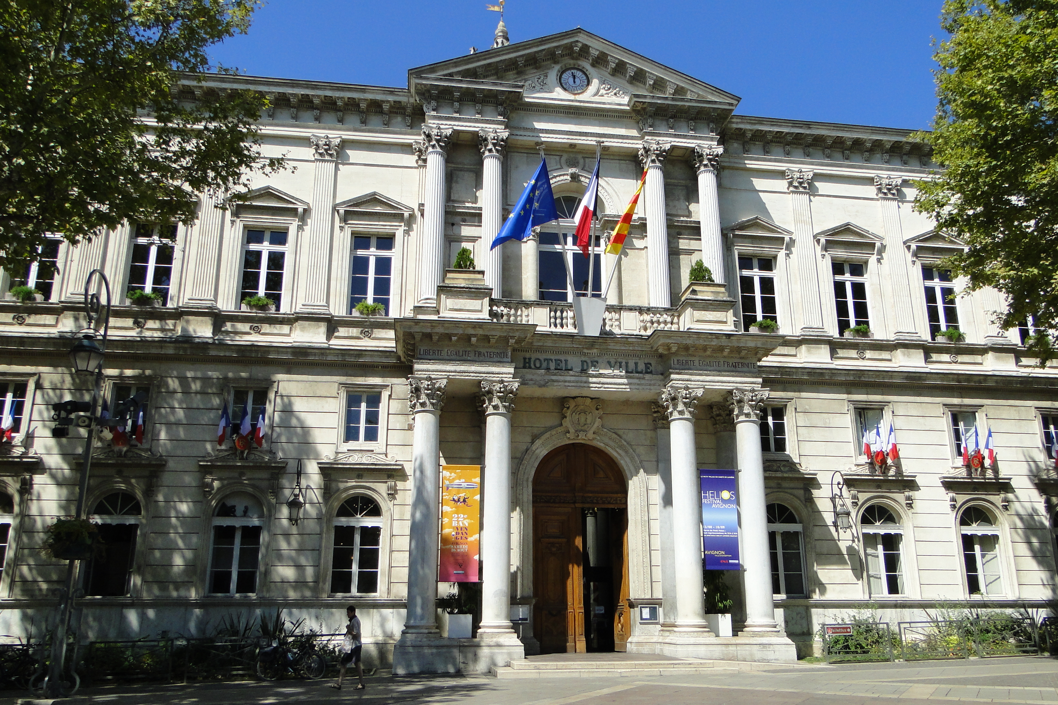 Town Hall (Hotel de Ville)